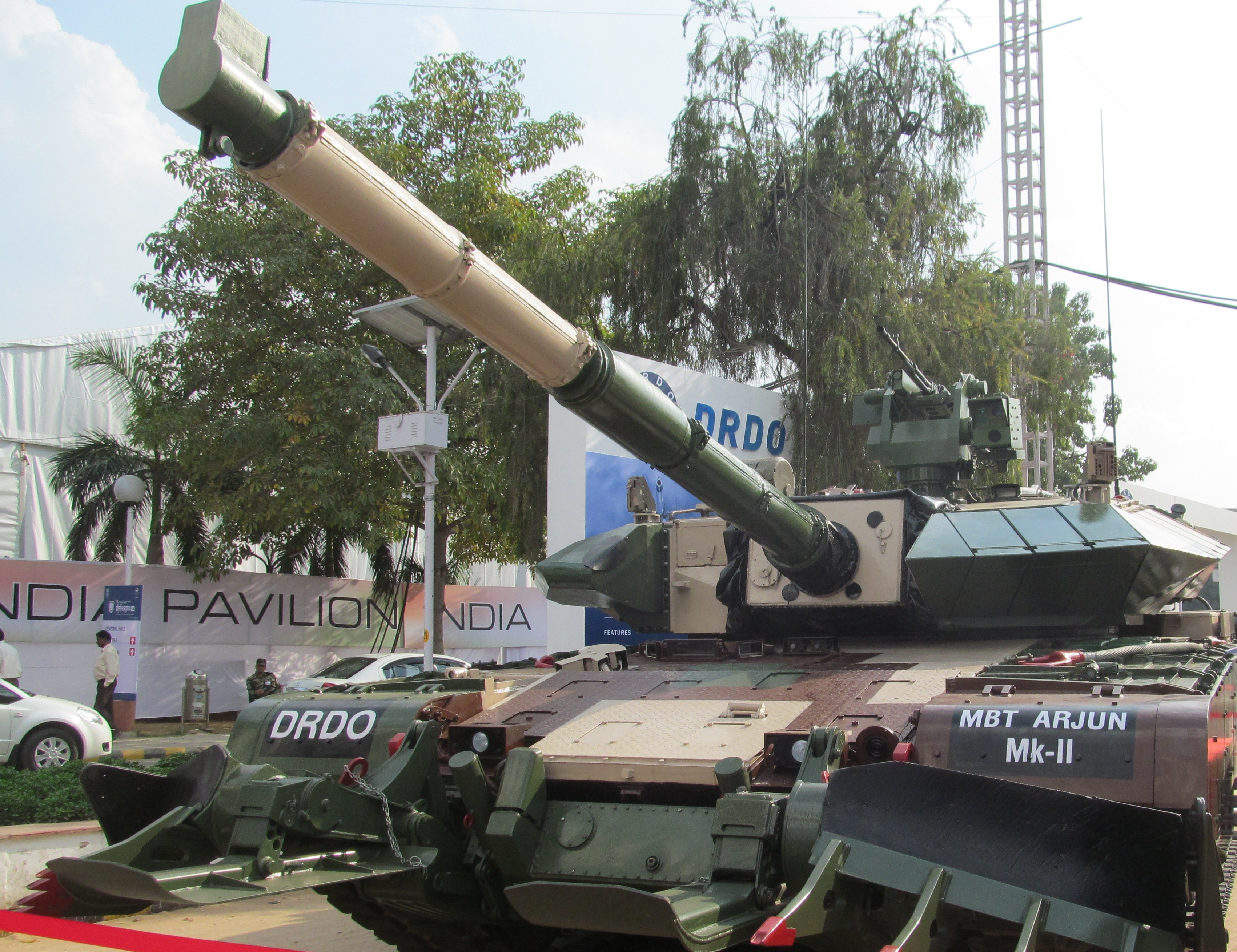 Frontal view of Arjun MK-II MBT